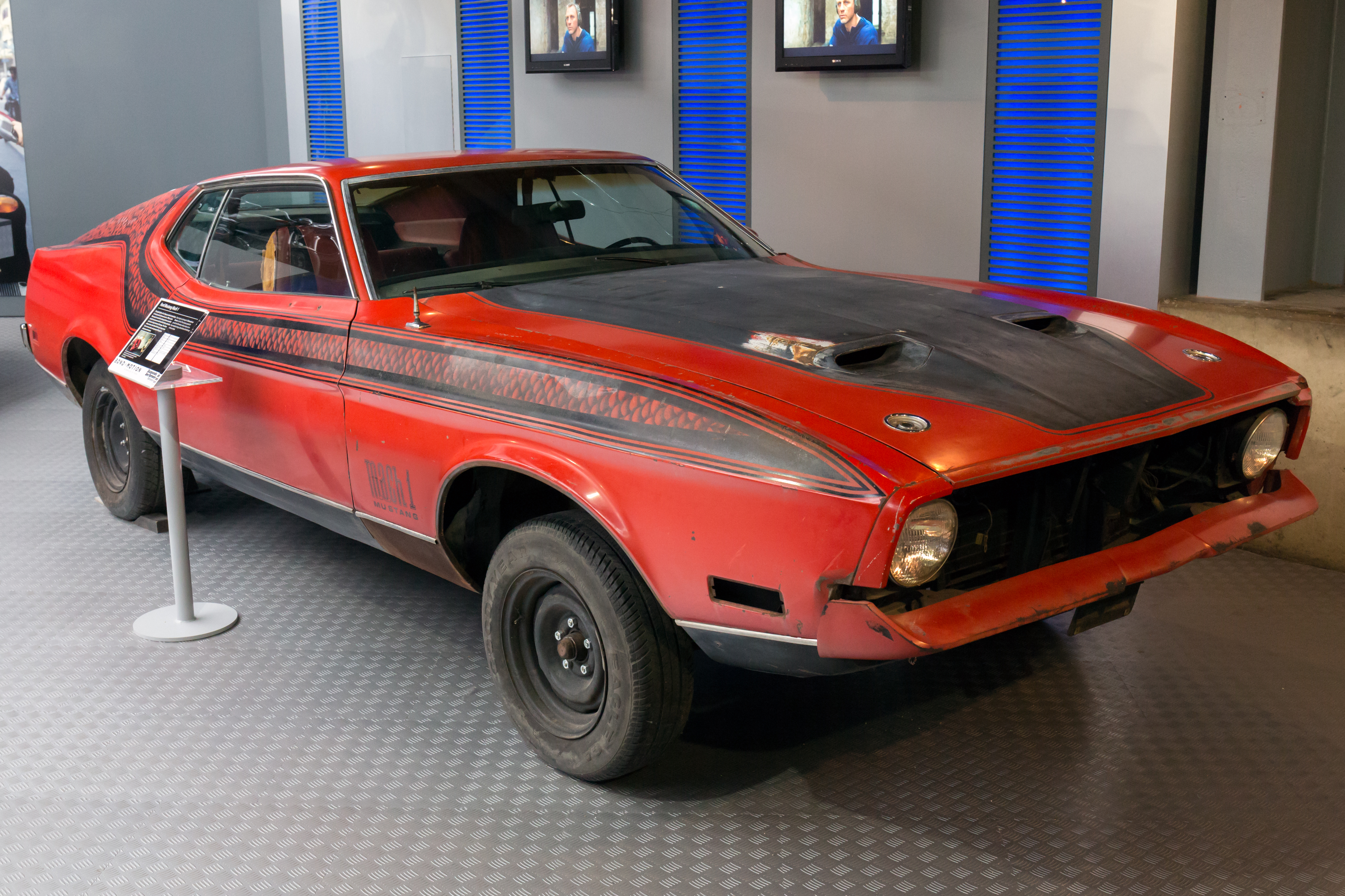 Ford Mustang Mach 1, from "Diamonds Are Forever" (1971)